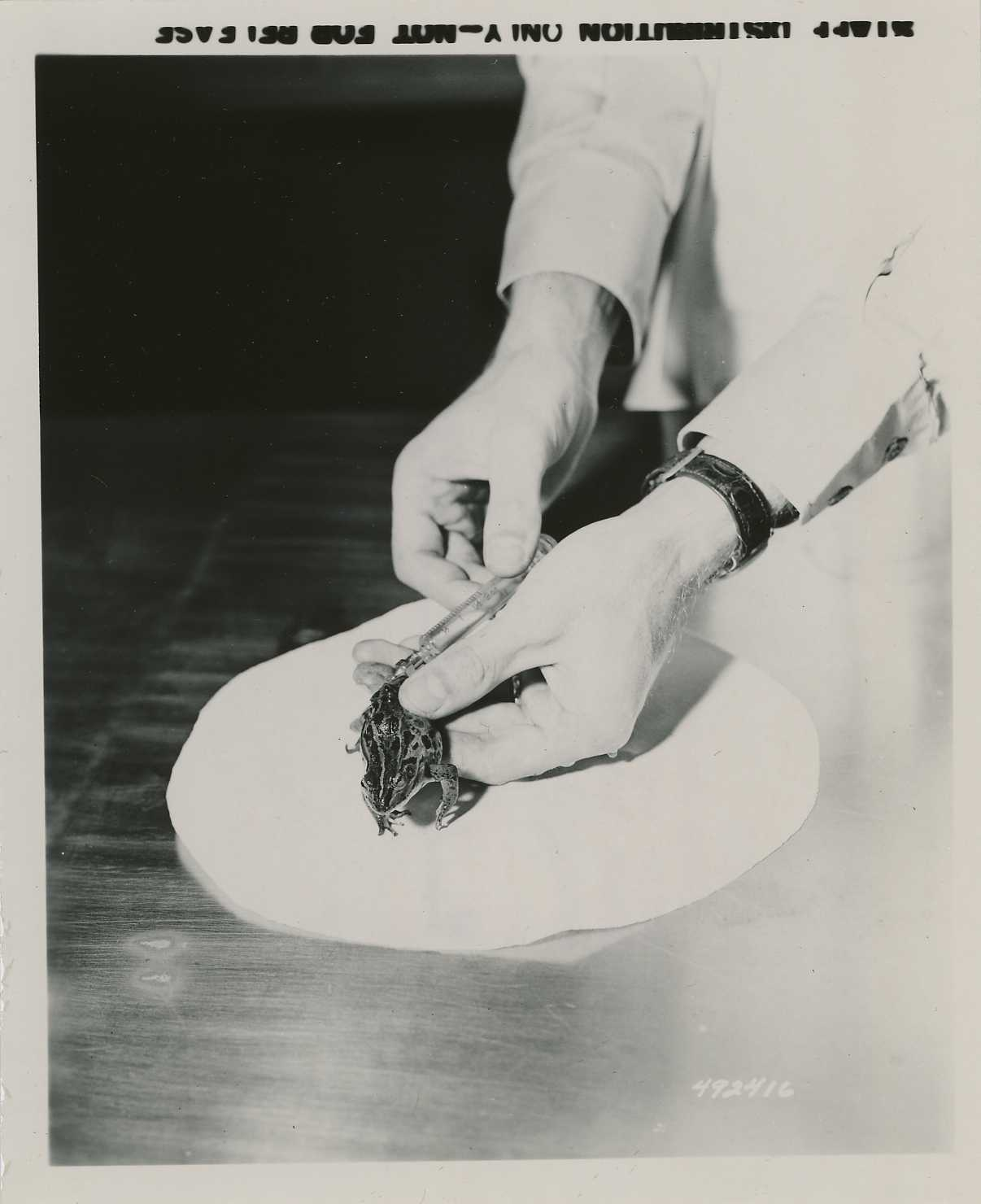 pregnancy test ; A frog being injected with concentrated urine during a pregnancy test at the 406th Medical ; General Laboratory, Camp Zama, Kanagawa Prefecture, Japan. 11/05/1956.Army Medical Museum